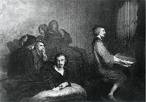 Maître Wolfrain : [Wolfram von Eschenbach] playing organ, while some friends are listening, lithographic print by Aimé de Lemud made in Paris, after E.T.A. Hoffmann, Der Kampf der Sänger.